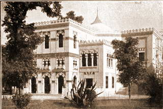 Azbakeya theater in 1928, (Azbakeya : one of the districts of Cairo, Egypt)